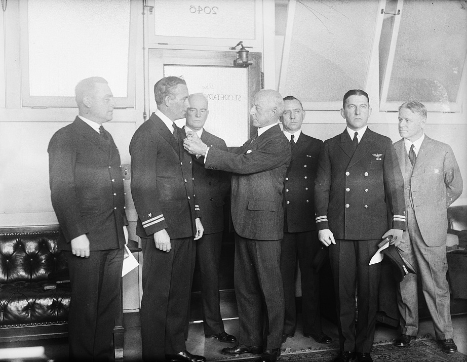 "Naval flyers receive decorations. Secretary of the Navy Adams presents Distinguished Flying Cross to four noted Navy flyers. Left to right: Chief Aviation Pilot, Harold I. June, who was decorated for his service with the Byrd Antarctic Expedition: Lieut. Richard F. Whitehead, receiving the decoration for service in connection with the Navy's Alaskan Aerial Expedition in 1926; Rear Admiral William A. Moffett, chief of the Navy Bureau of Aeronautics; Secretary Adams; Lieut. Wallace M. Dillon and Photographer 1st Class William J. Murtha, who also received the medal for their work on the Alaskan expedition" -Harris & Ewing, photographer